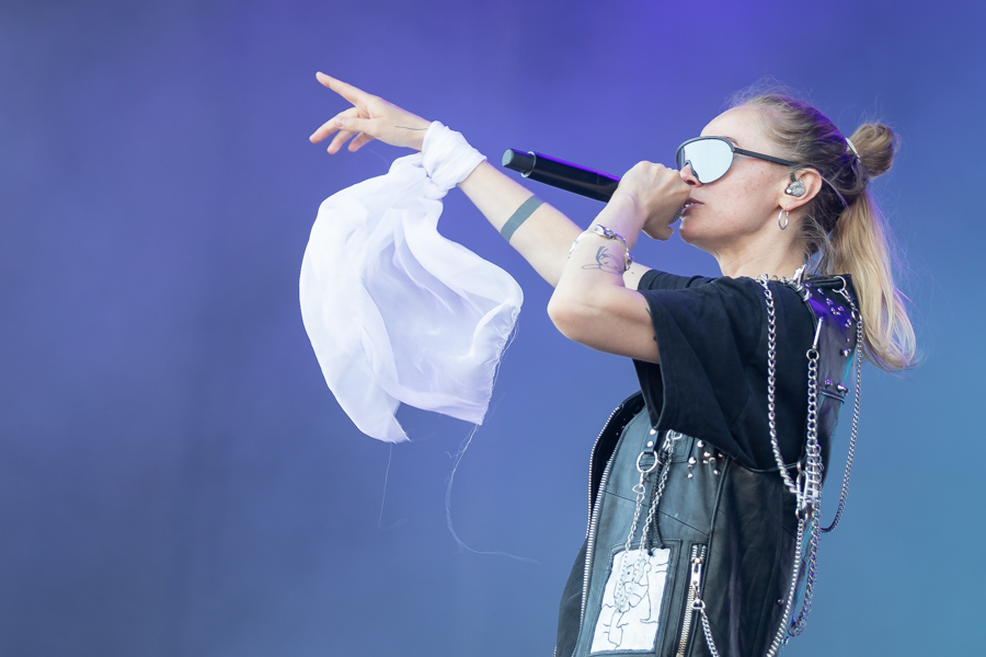 Silvana Imam at Stavernfestivalen. The concert took place on 12. July 2019 in Stavern. Lineup:Silvana Imam (rap)